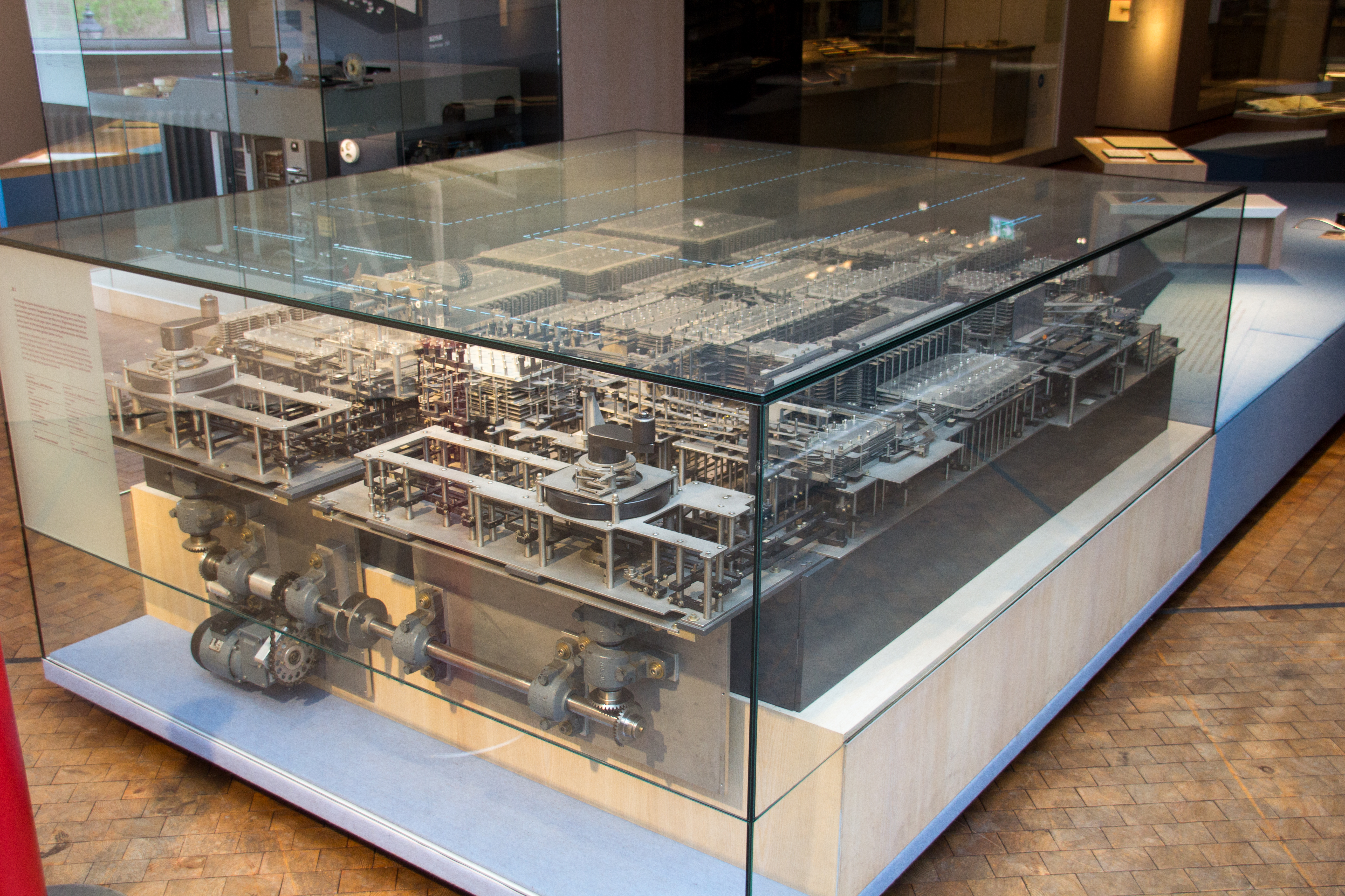 German Museum of Technology, Berlin, Germany. Z1 computer